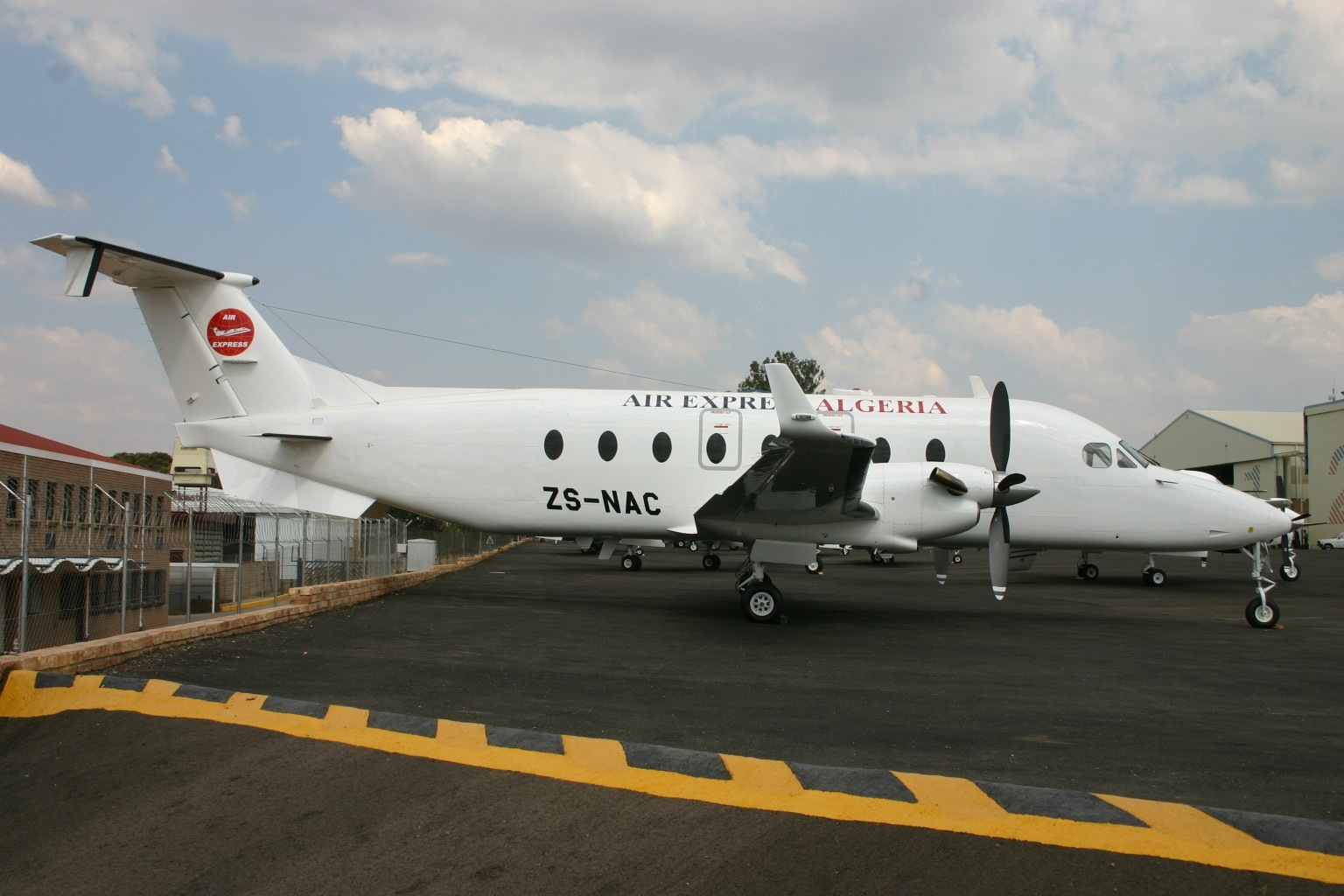 At Lanseria International Airport